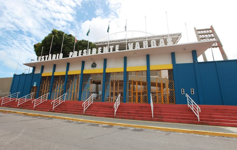 Presidente Vargas Stadium (2)